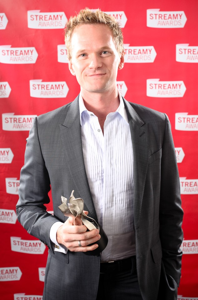 Neil Patrick Harris at the 1st Streamy Awards in 2009.